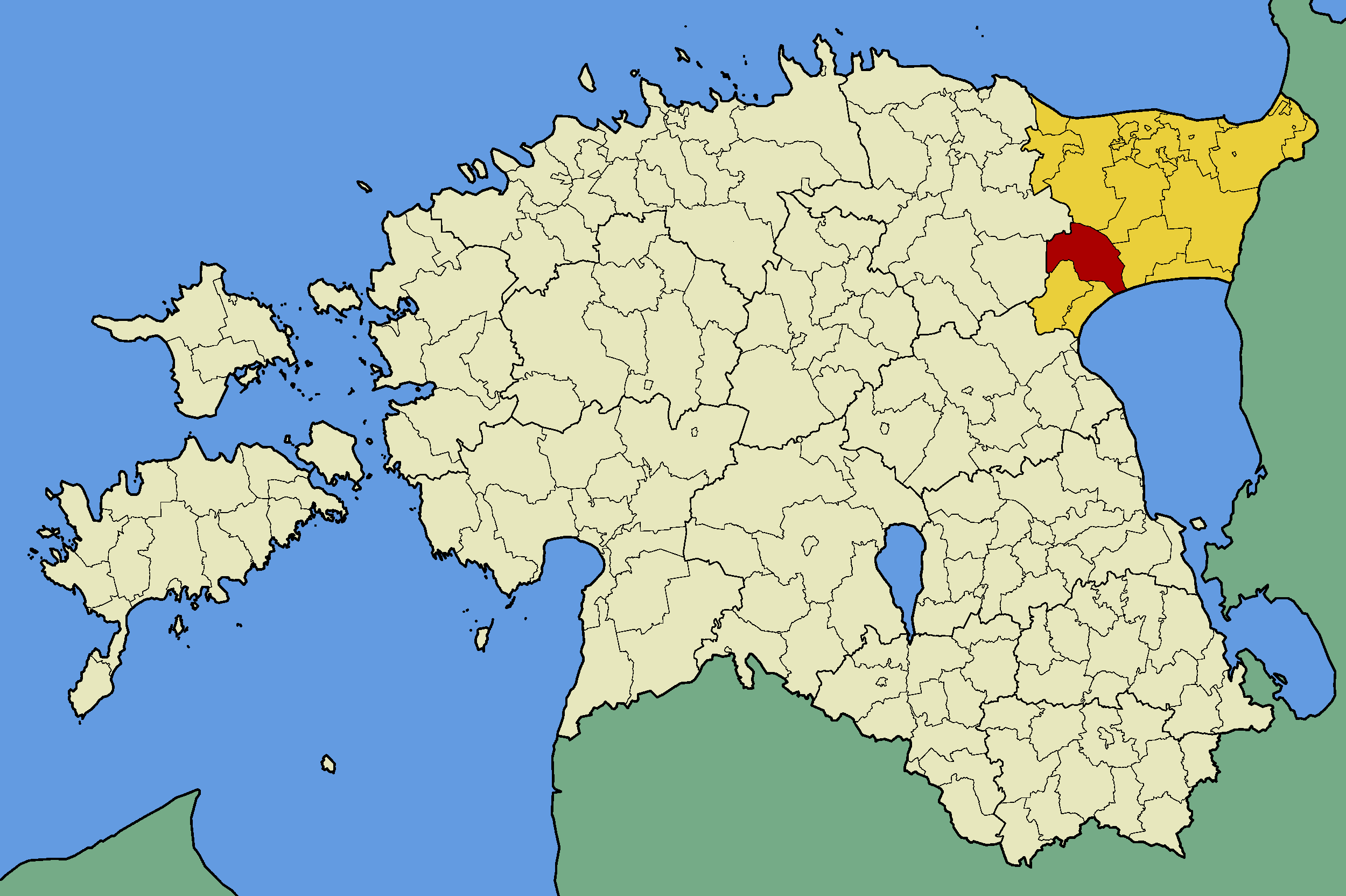 Map of Estonia with borders of municipalities (parishes). Ida-Viru county and Tudulinna municipality emphasized.